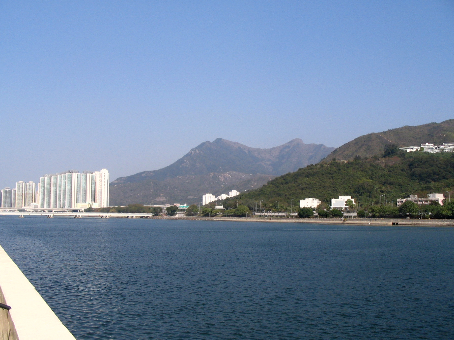 Photo of Ma On Shan